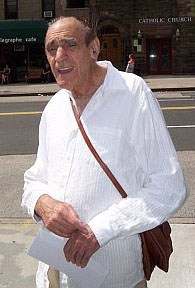 Abe Vigoda in June 2007 in Manhattan on 72nd St near 2nd Ave.